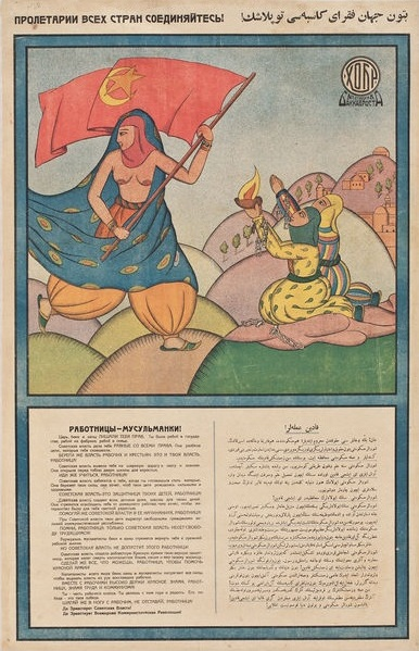 “Female Muslims: The tsar, beys and khans took your rights away” – Azeri, Baku, 1921 (Mardjani Foundation)